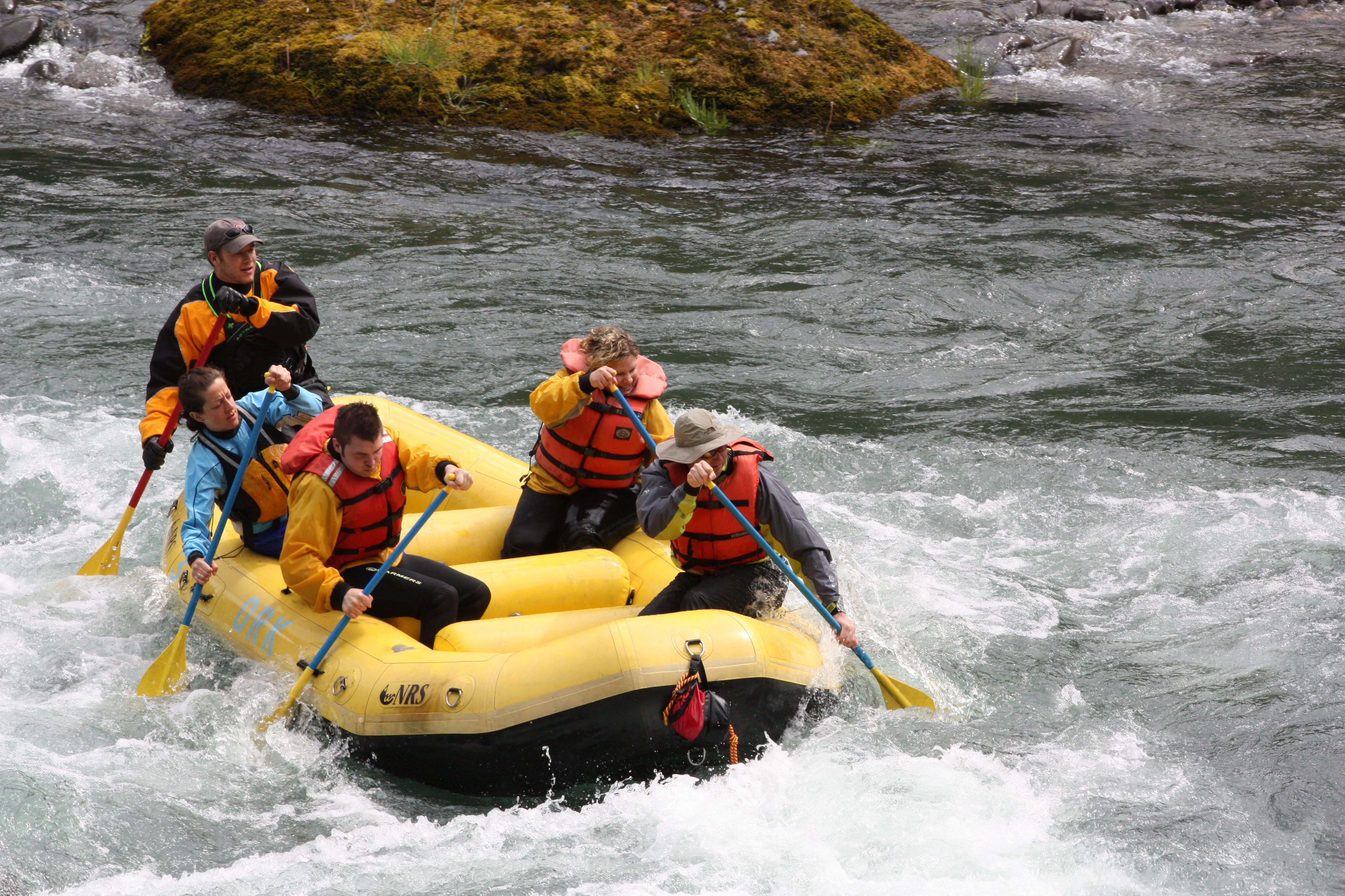 Rafting Class II+ whitewater river; Olympic Raft and Kayak (ORK 3); NRS raft; Elwha River